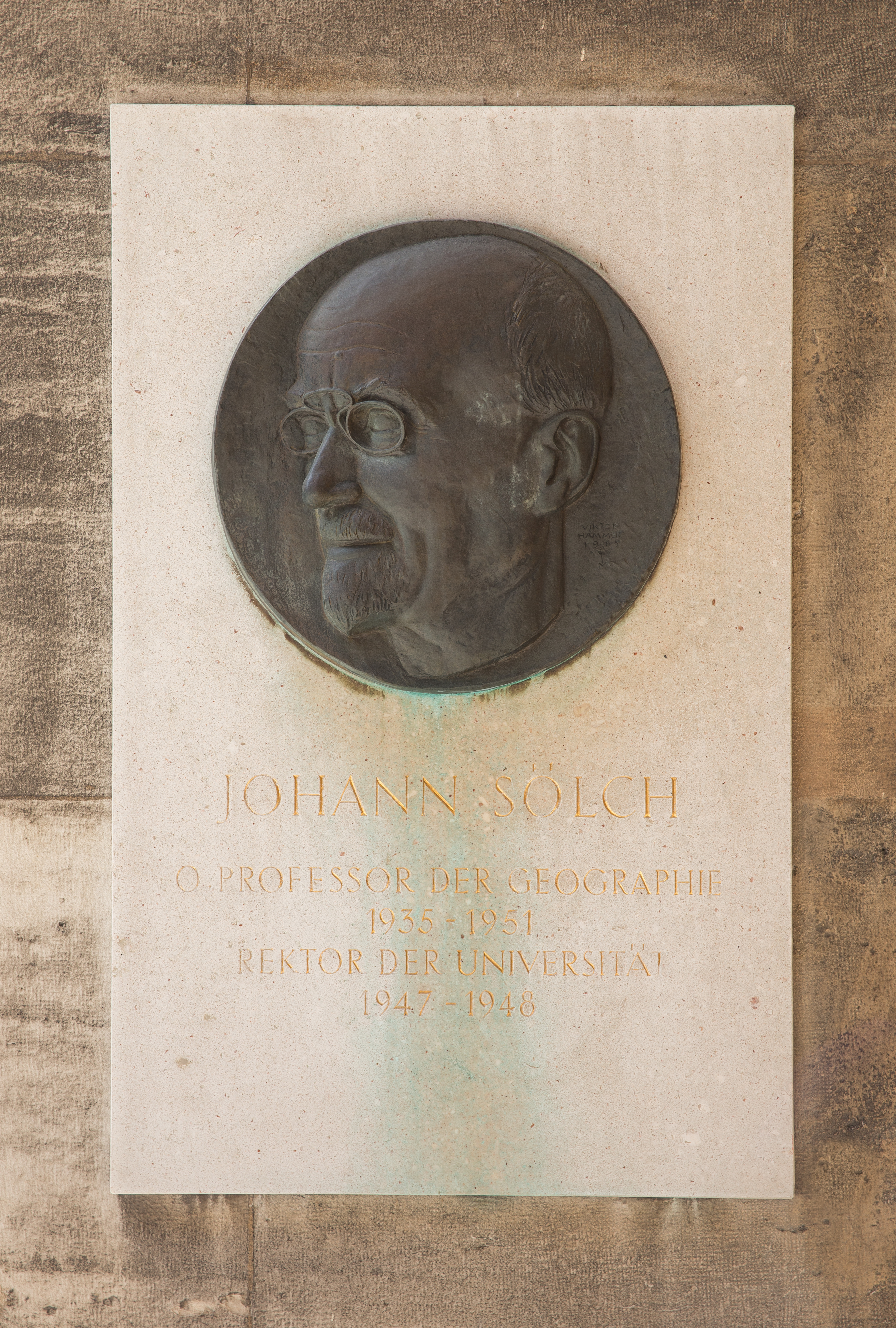 Johann Sölch (1865-1935), geographer, relief (bronce) in the Arkadenhof of the University of Vienna, (Maisel# 137). Artist: Viktor Hammer (1882-1967), unveiled 1965